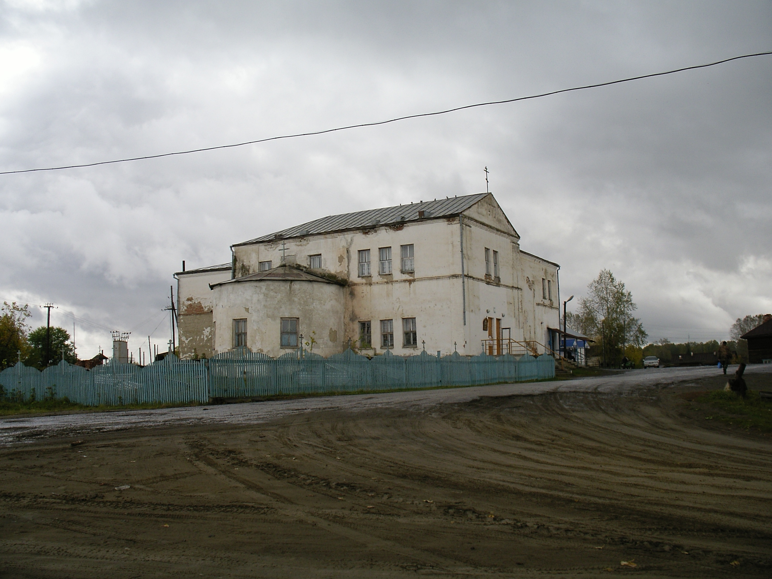 Church Assumption of Mary, Zavodouspenskoe, Sverdlovsk Oblast, Russia